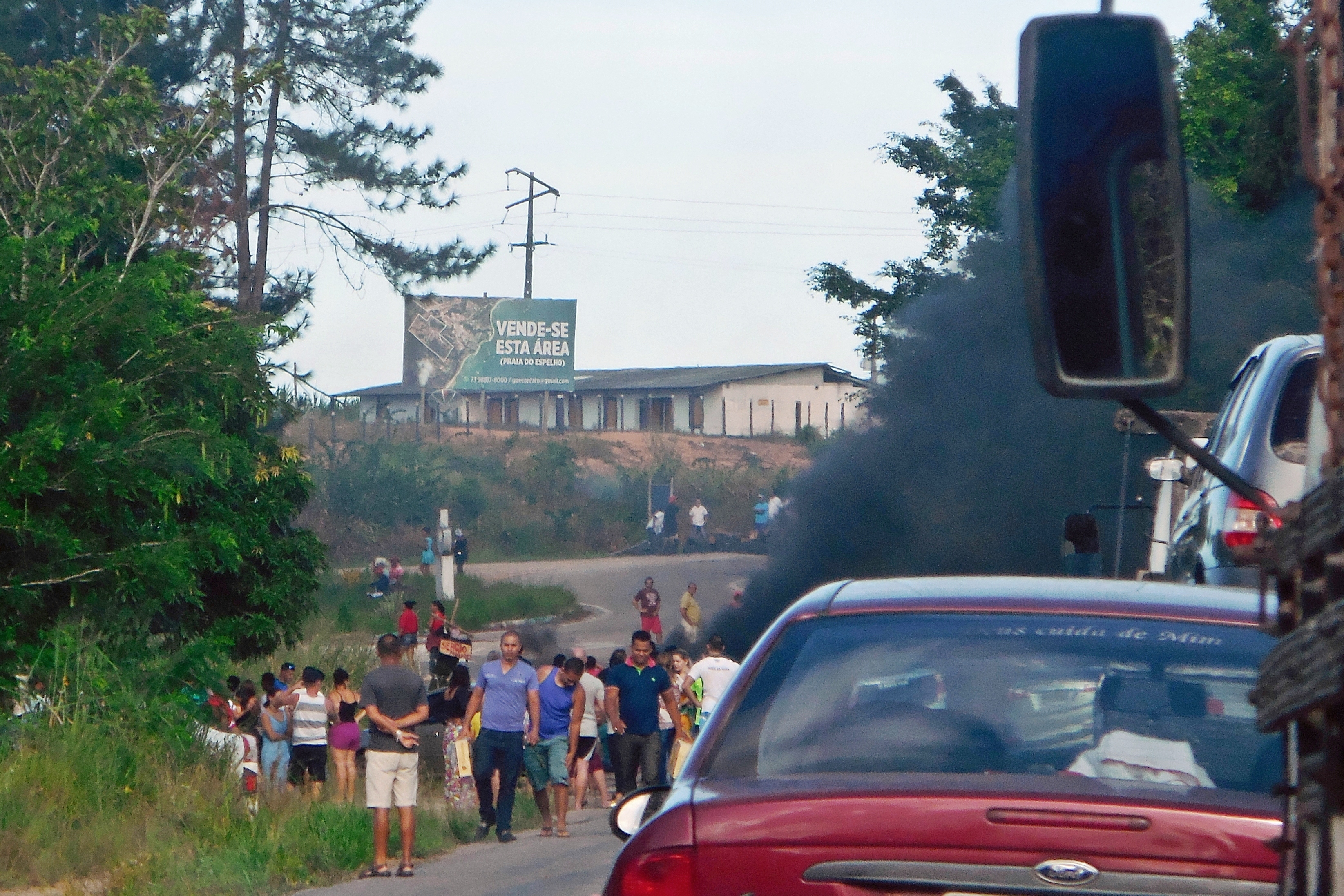 Blockade of BR-367 by the Landless Workers' Movement (Movimento Sem Terra, MST) against the arrest of former President Luiz Inácio Lula da Silva in Eunápolis, Bahia, Brazil.